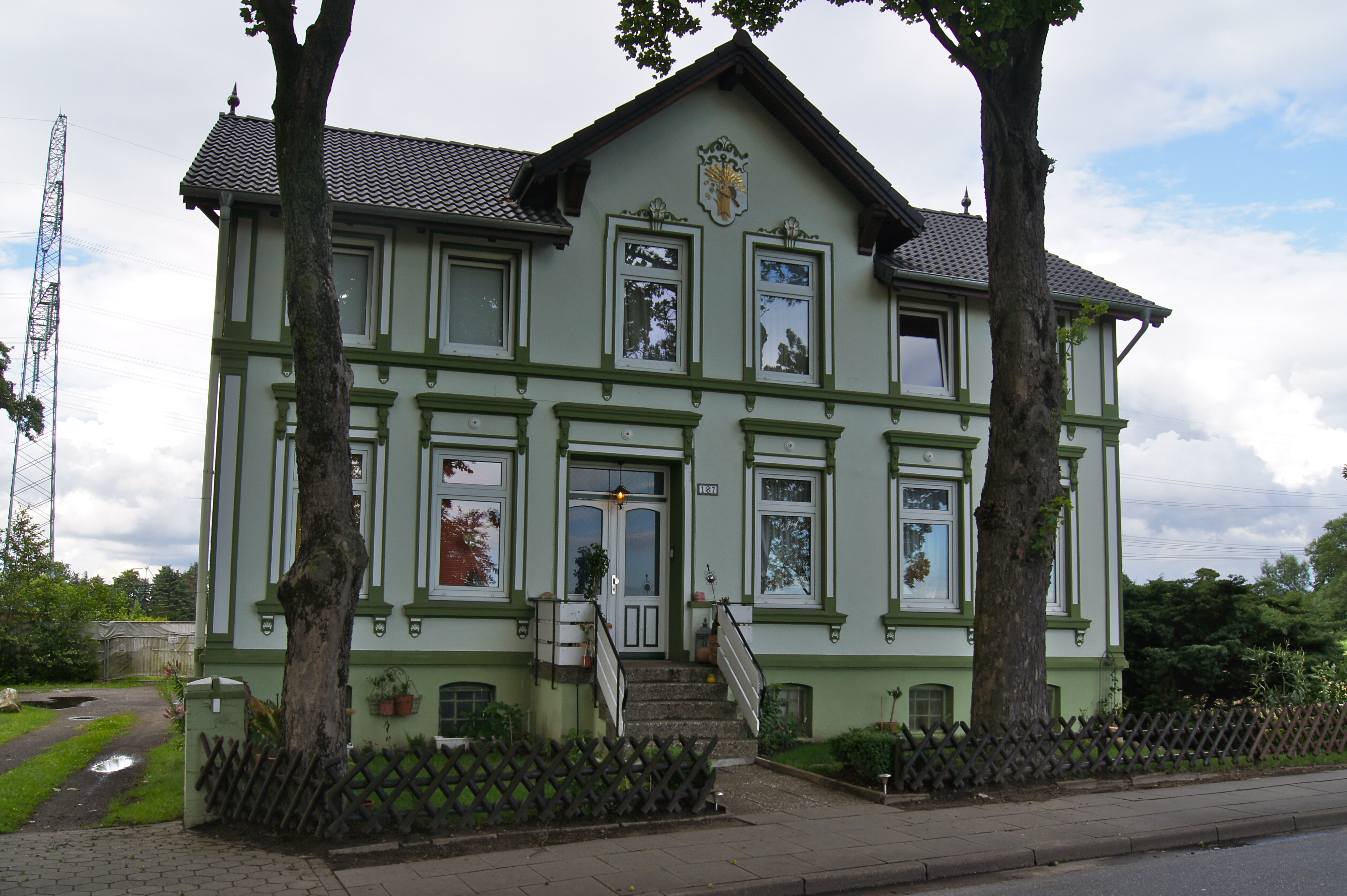 Hamburg (Gut Moor), Germany: Farmhouse on the Groot Moor Damm